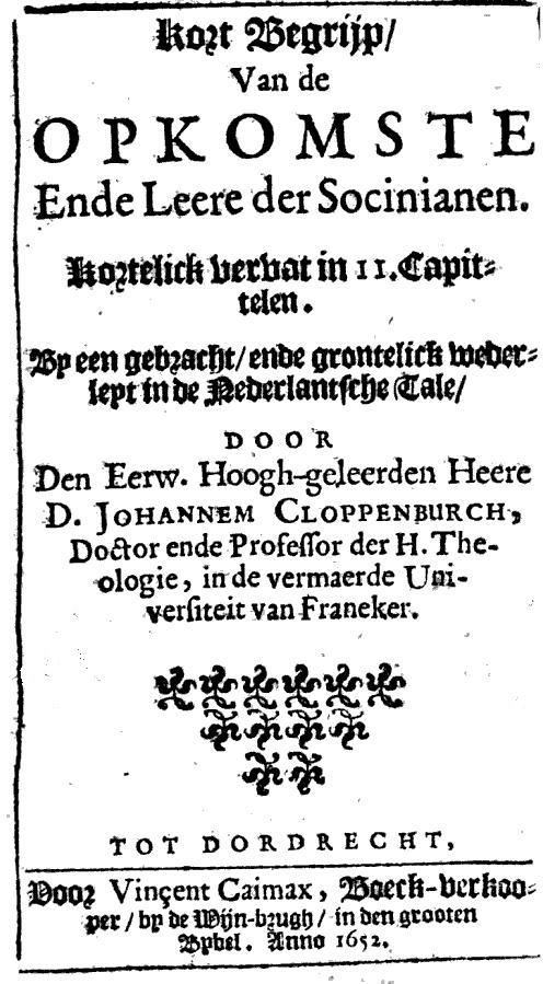 Title page of Kort Begrijp, van de Opkomste ende Leere der Socianen: in 11 Capittelen, by Johannes Cloppenburg.